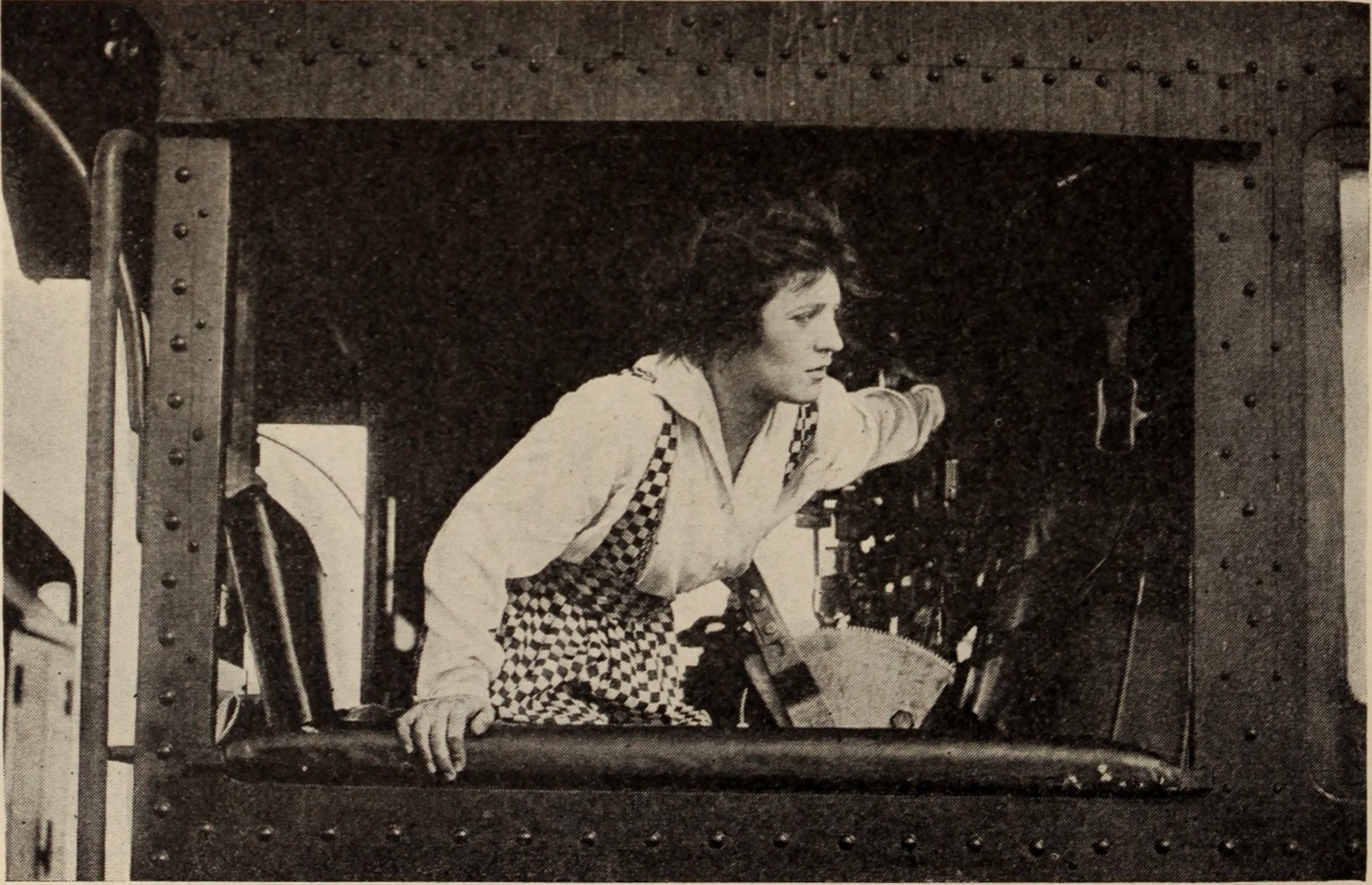 Helen Holmes in Baltimore and Ohio Employes Magazine ("Employes" is spelled in this manner in title)